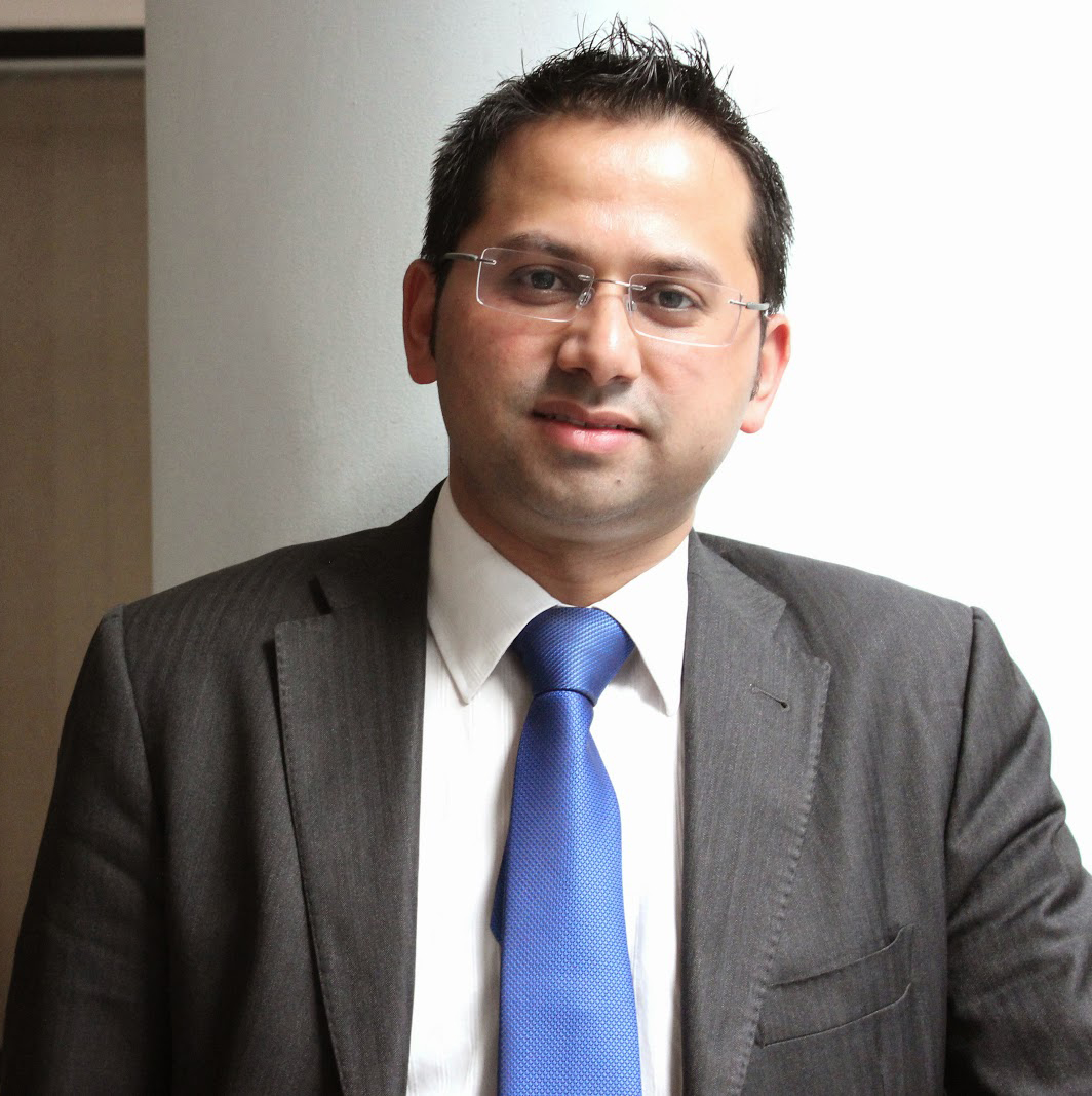 This image for Wikipedia.